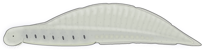 This is a new, improved image of Yunnanozoon, replacing the old, inaccurate one currently used at the article that I uploaded nearly seven years ago from uploading this file. Other information If I am credited, I may be credited as Cyrus Theedishman.